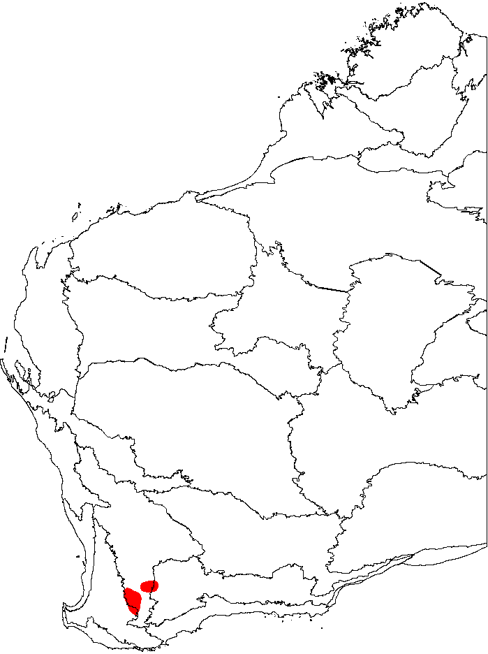 This is a map of Western Australia, showing the distribution of Banksia oligantha (Wagin Banksia) superimposed on a background of the IBRA 6.1 biogeographic regions.